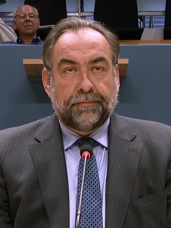 Openbaar verhoor Marc Descheemaecker - enquêtecommissie Fyra 5 juni 2015